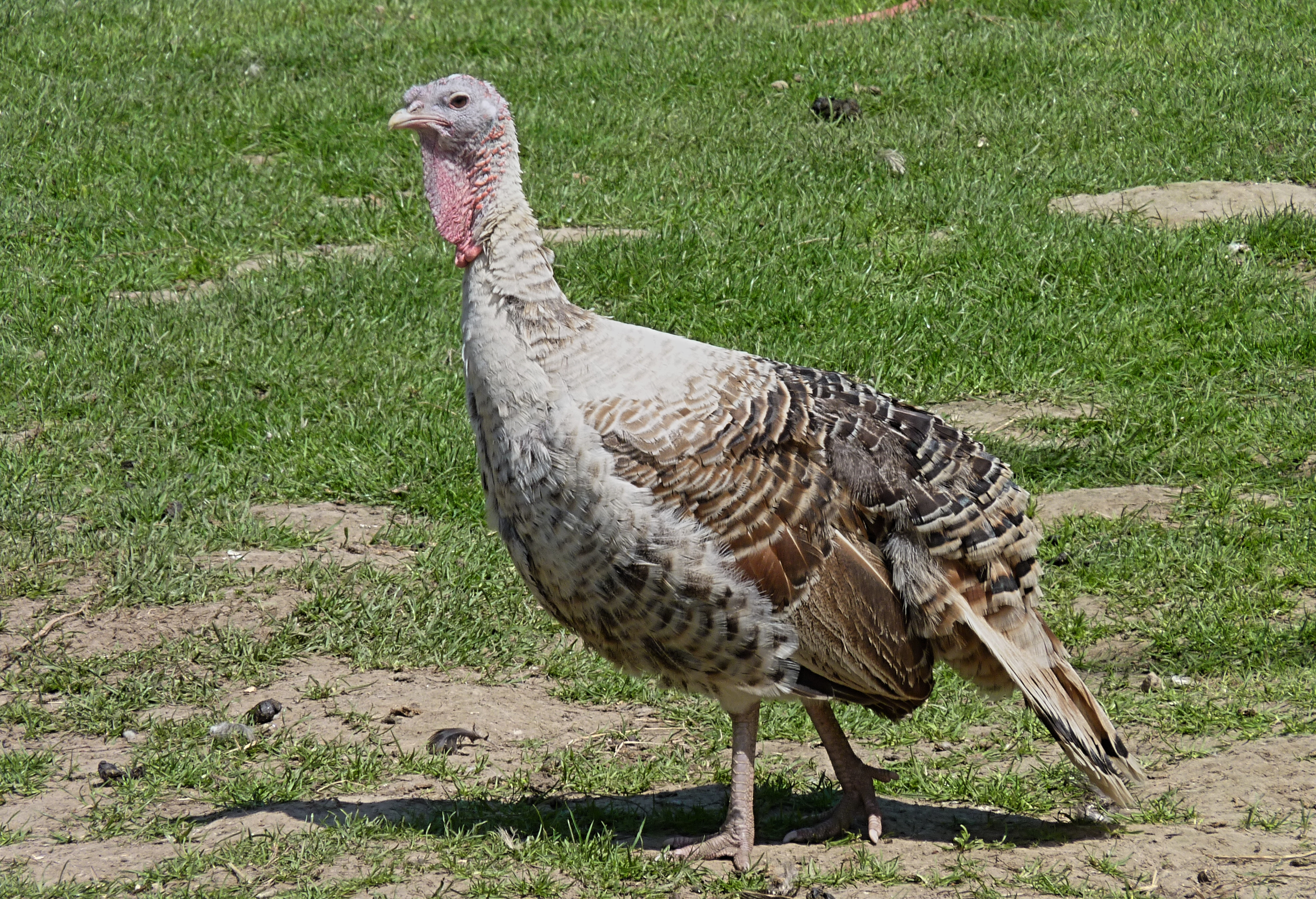 Ronquières turkey (female), picture taken in Belgium.